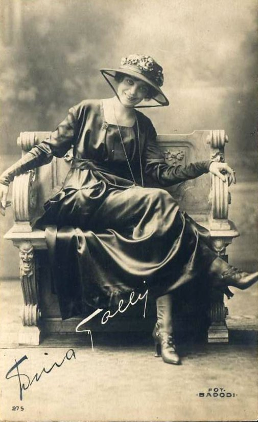 Portrait of Dina Galli